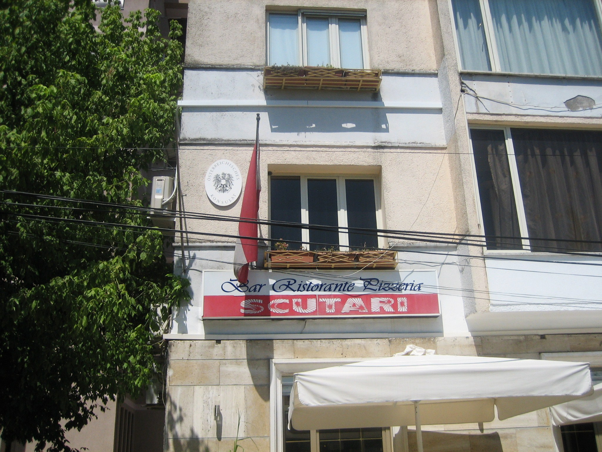 Austrian Honorary Consulate in Shkodër, Shkodër District, Shkodër County, Albania